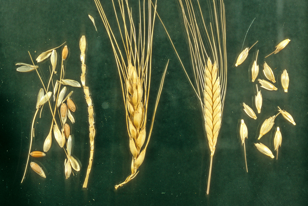 Left: Naked wheat, Bread wheat (Triticum aestivum); Right: Hulled wheat, Einkorn (Triticum monococcum).